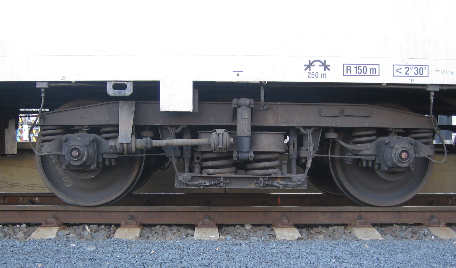 Bogie GP 200 under ČD class Bt